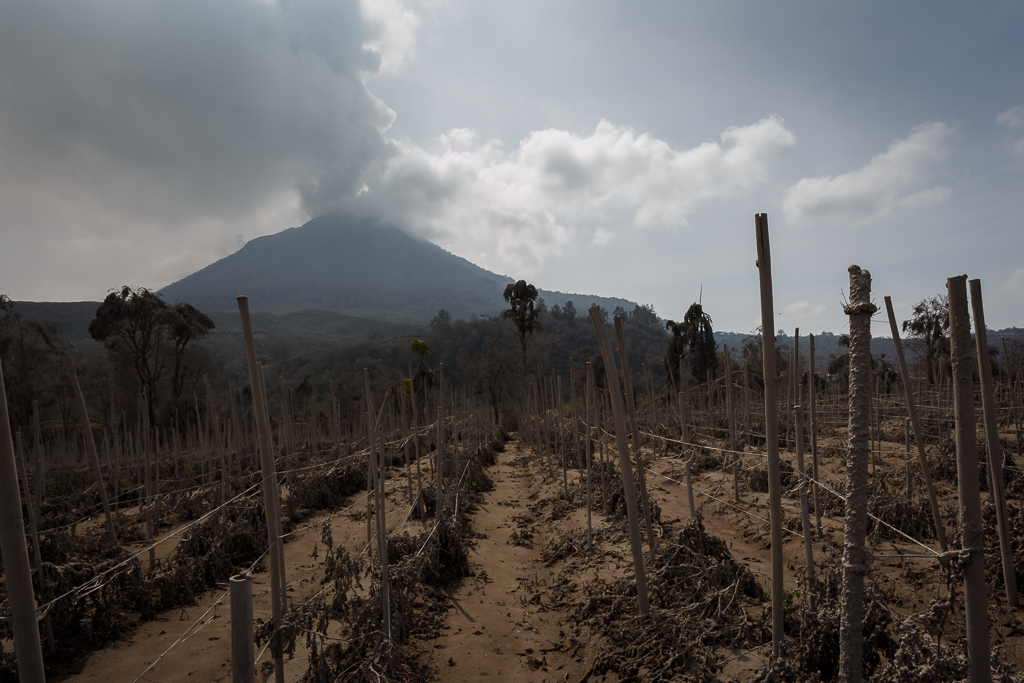 Mount Sinabung eruption. Medan, Indonesia